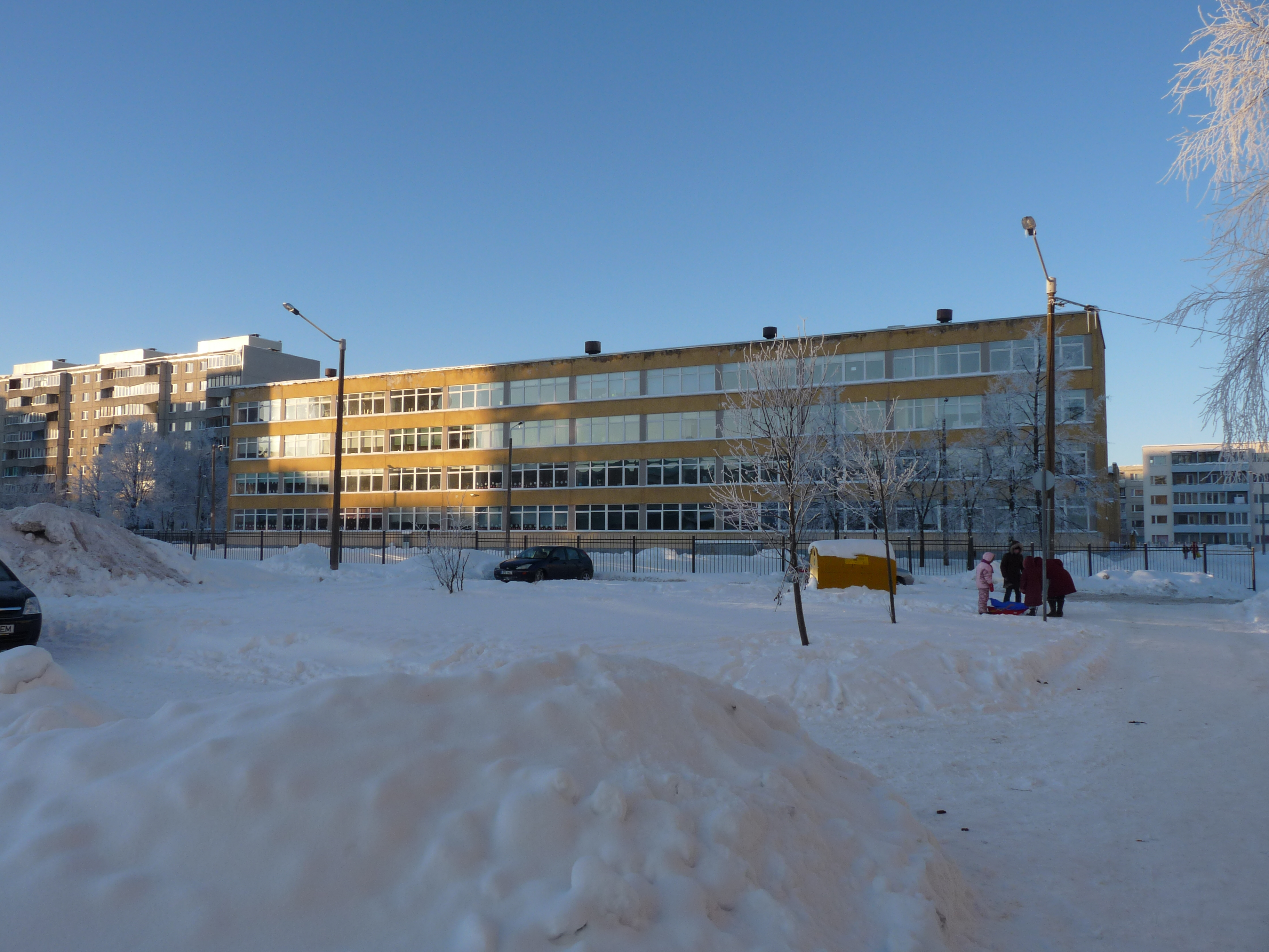 Paekaare gymnasium in Tallinn